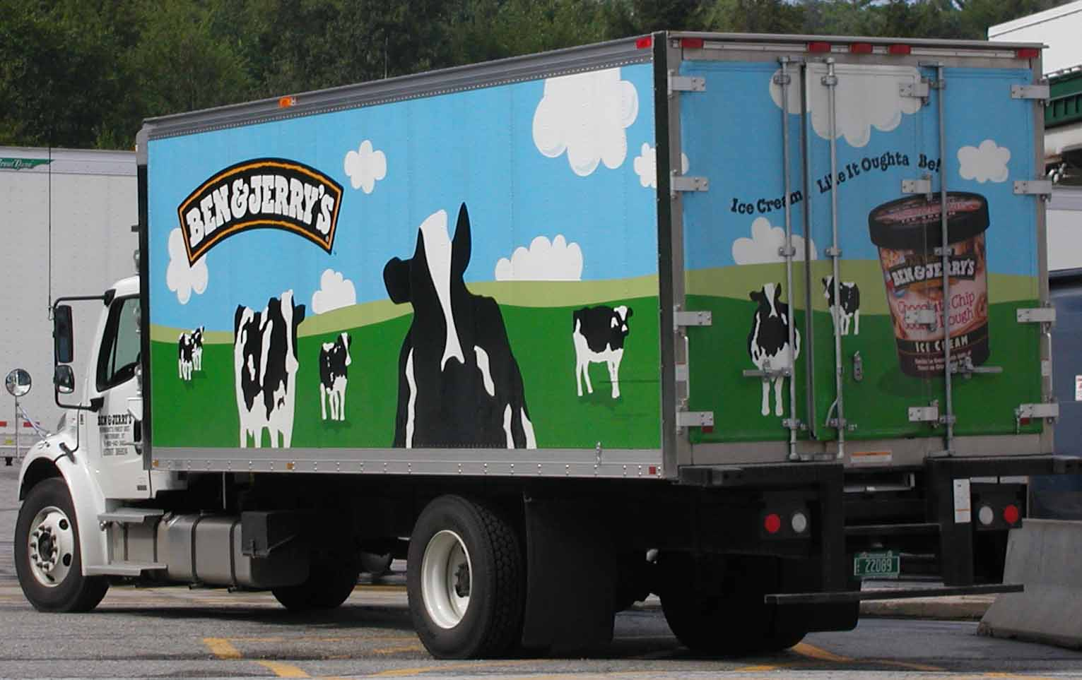 Truck from Ben & Jerry's in Waterbury, Vermont, August 2006.